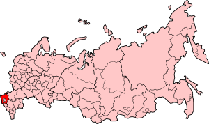 Krasnodar Krai on Russia map